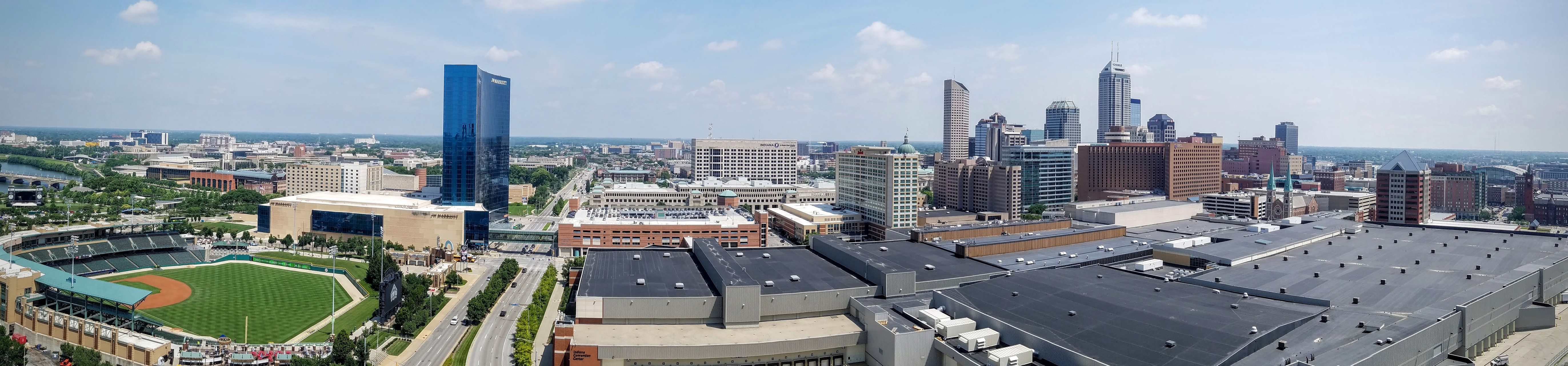 This photo was captured atop the Perry K. Steam Plant smokestacks, looking northeast across downtown Indianapolis.